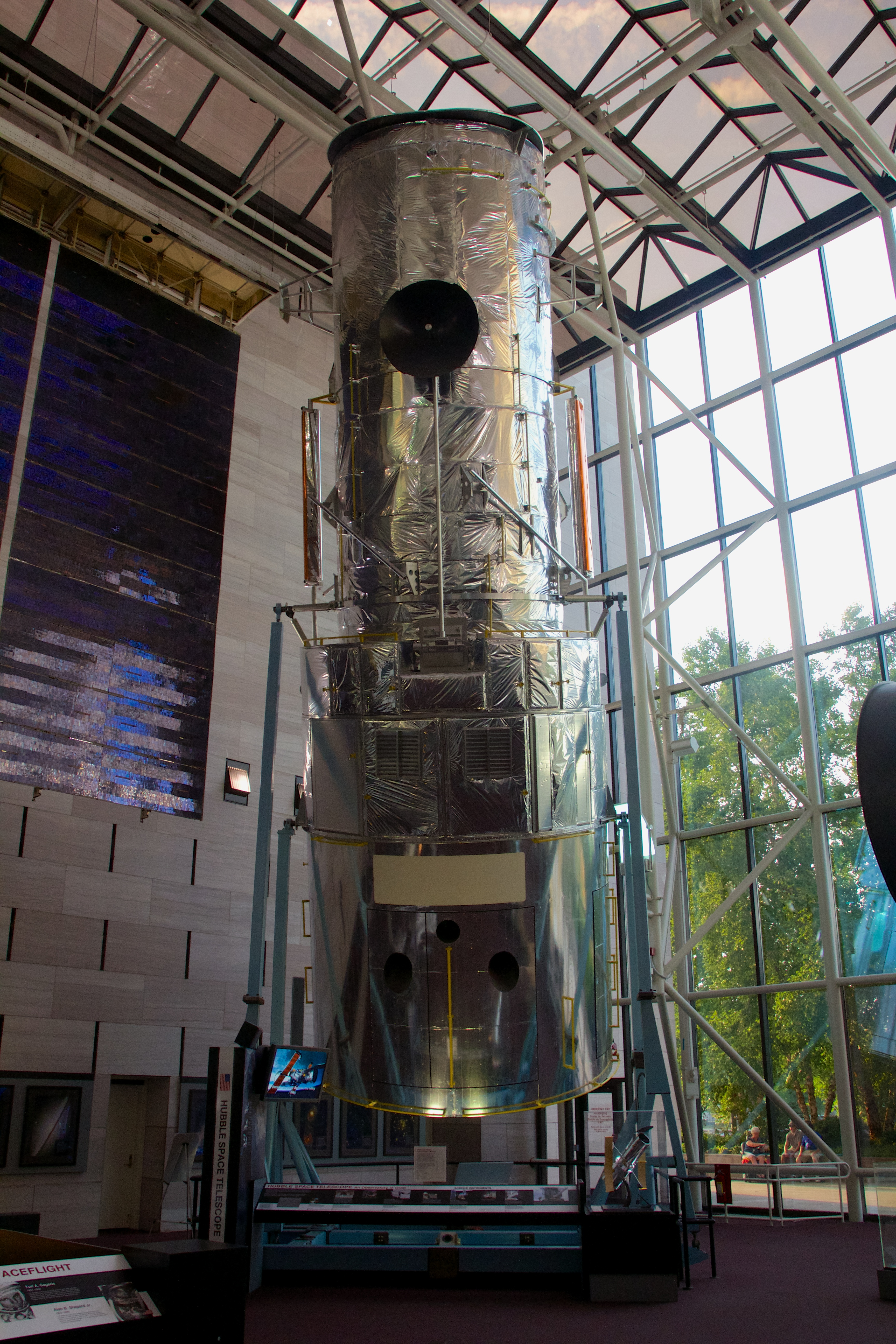 Hubble Space Telescope, National Air and Space Museum, Washington, D.C.